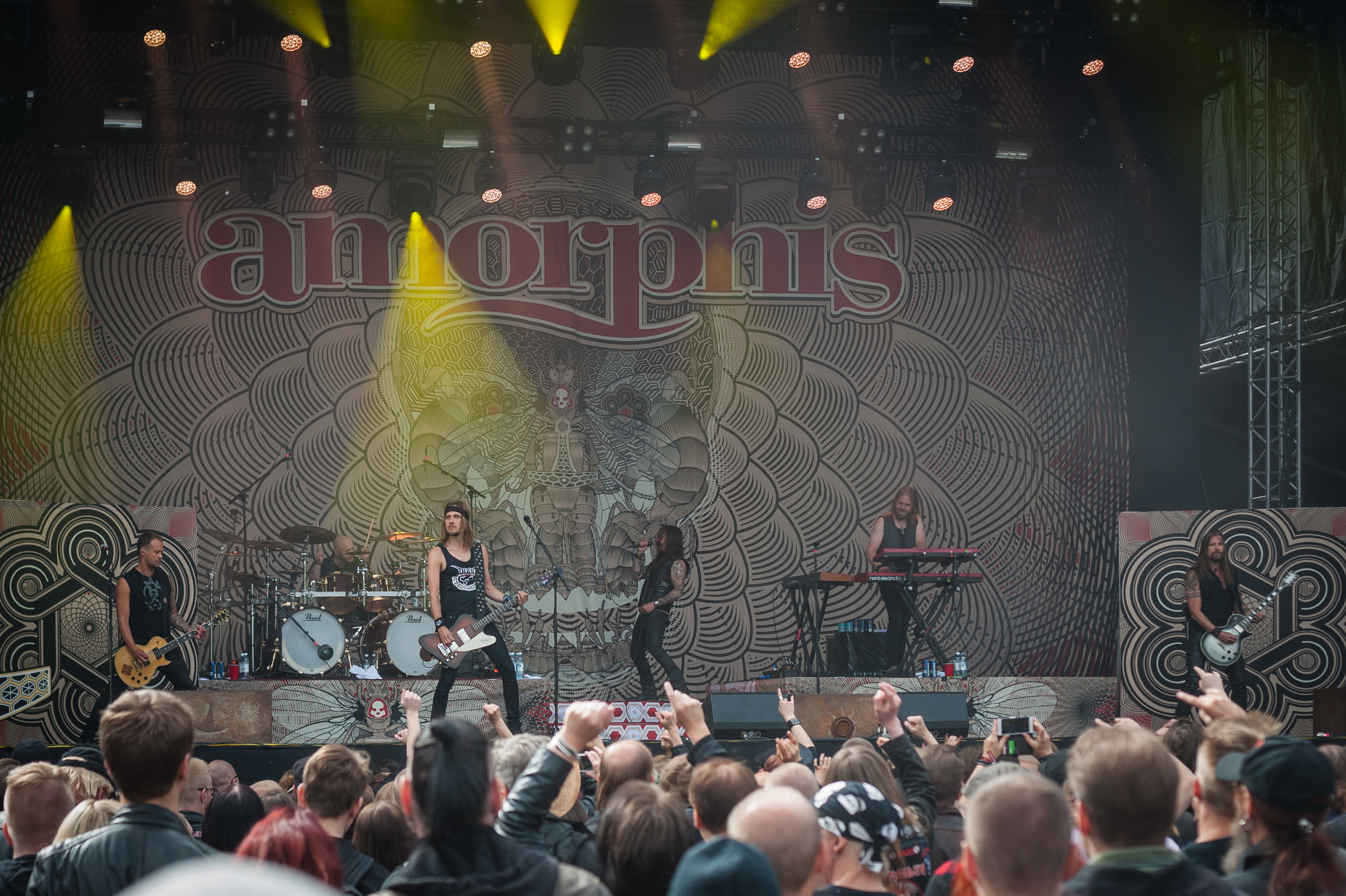 Finnish heavy metal band Amorphis performing at the 2018 South Park festival in Tampere, Finland.